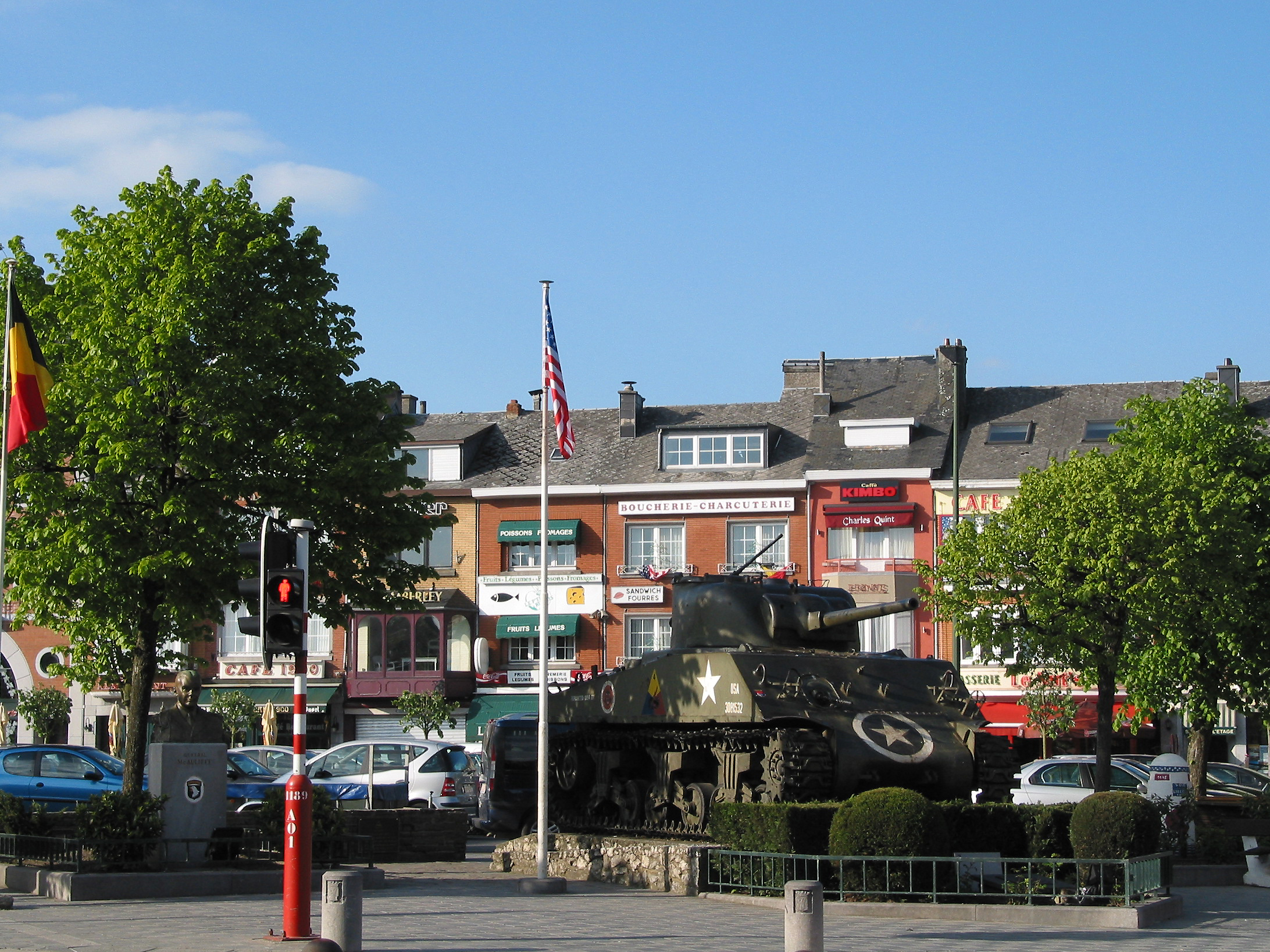 Bastogne (Belgium), General Mc Auliffe square.